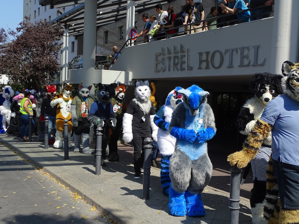 Street parade at Eurofurence 2018, Berlin